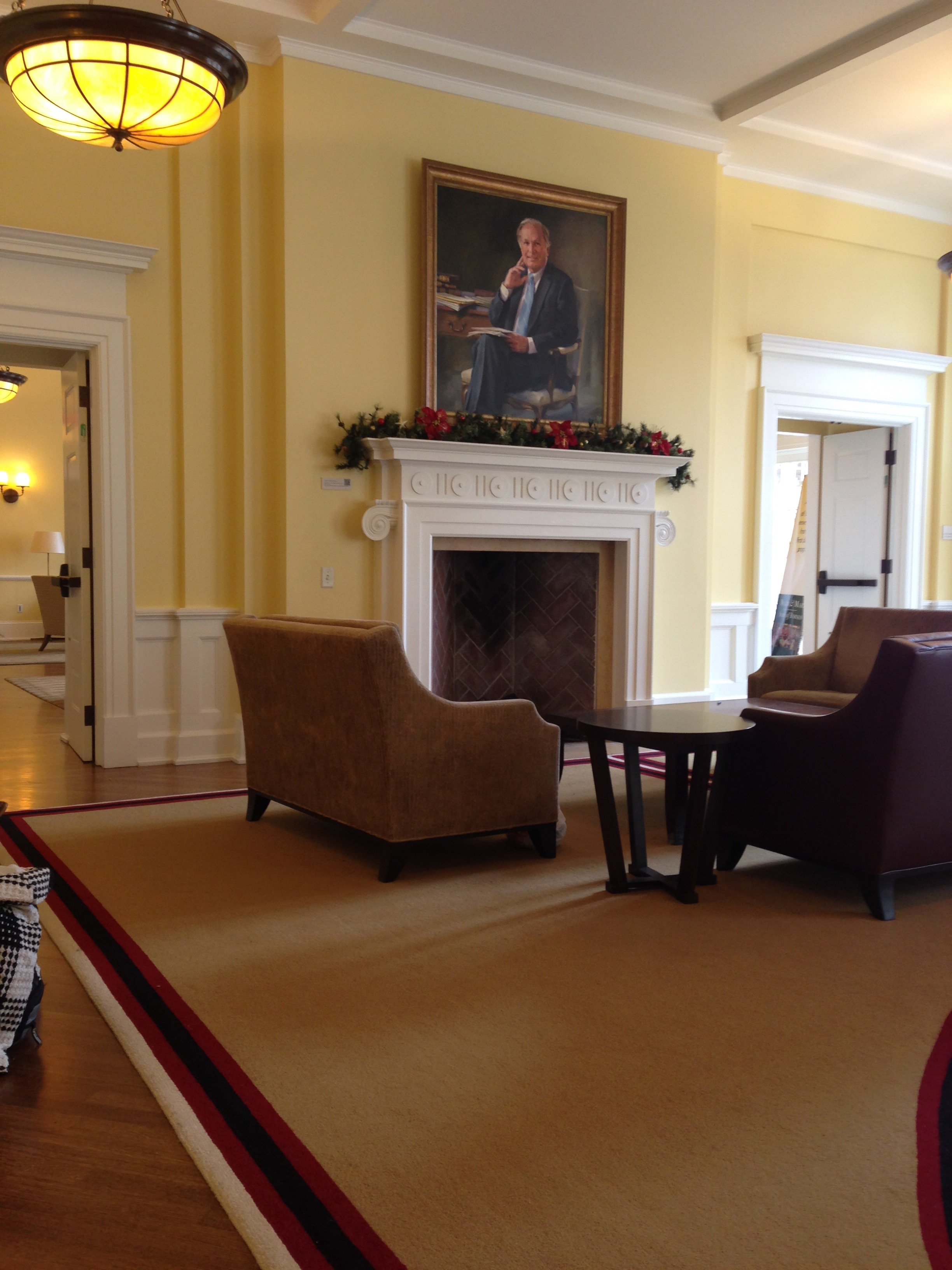 Sitting Area